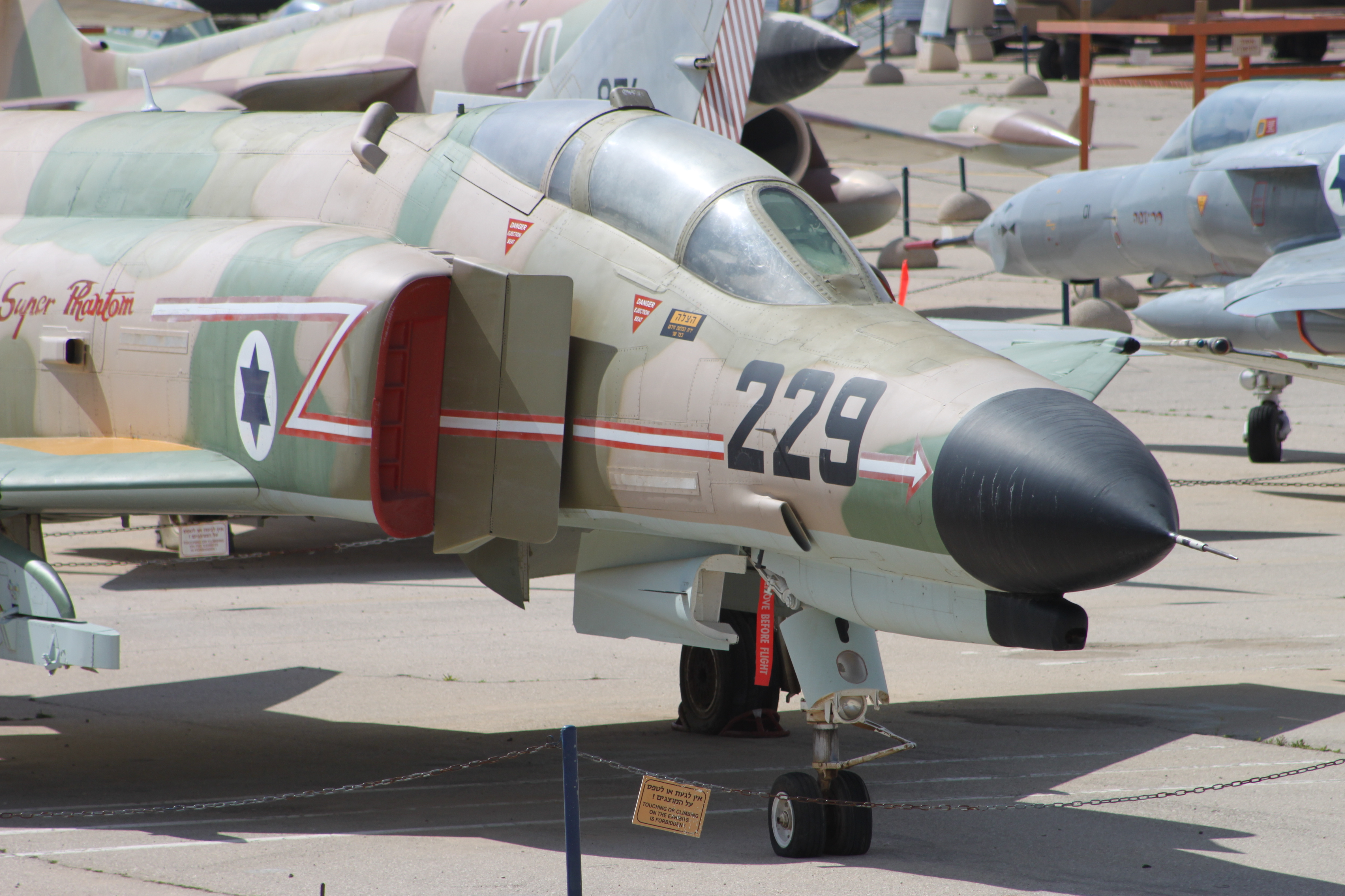 IAI Super Phantom 4X-JPA at the Israeli Air Force Museum in Hatzerim